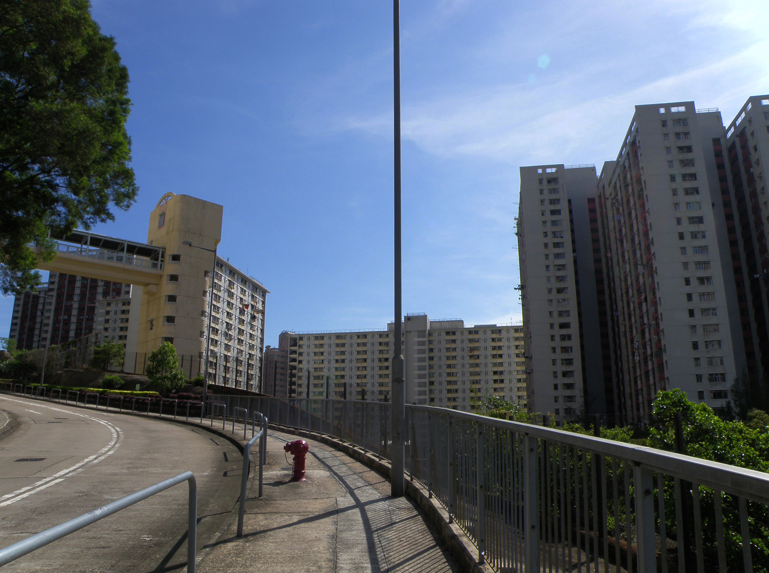 Shek Lei (I) Estate in Kwai Chung, Hong Kong.